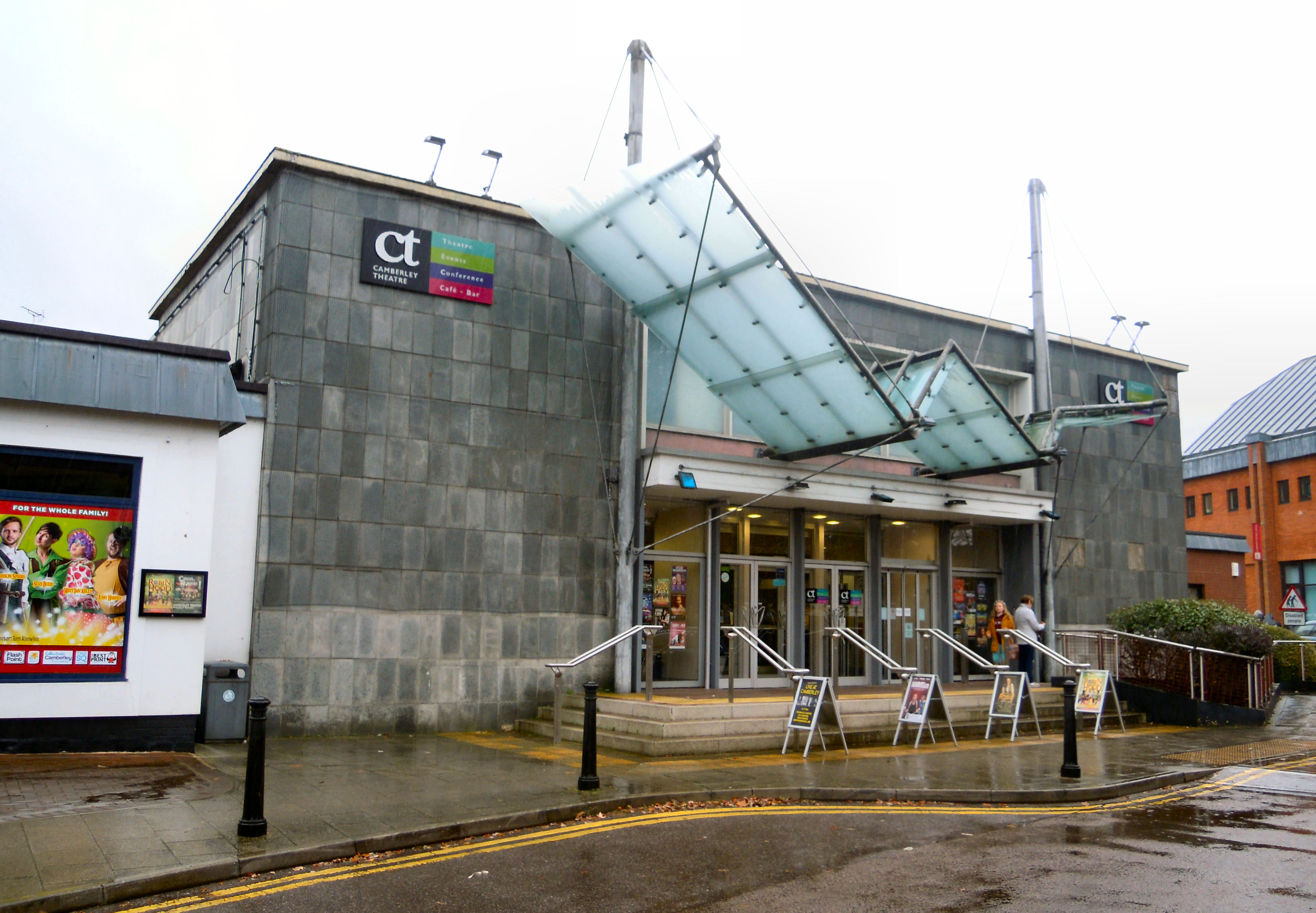 Exterior of Camberley Theatre in Camberley in Surrey on a wet November day in 2019